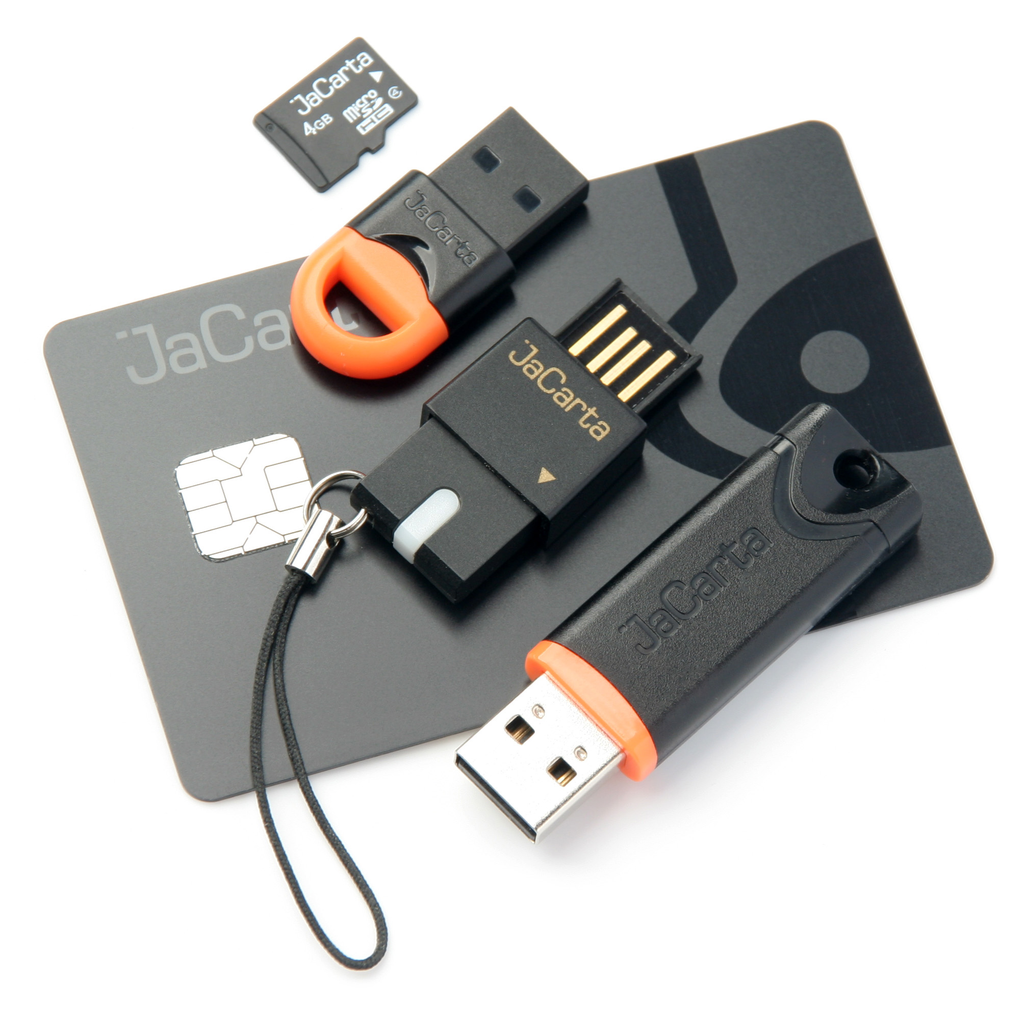 JaCarta smart card, three different USB tokens & microSD token